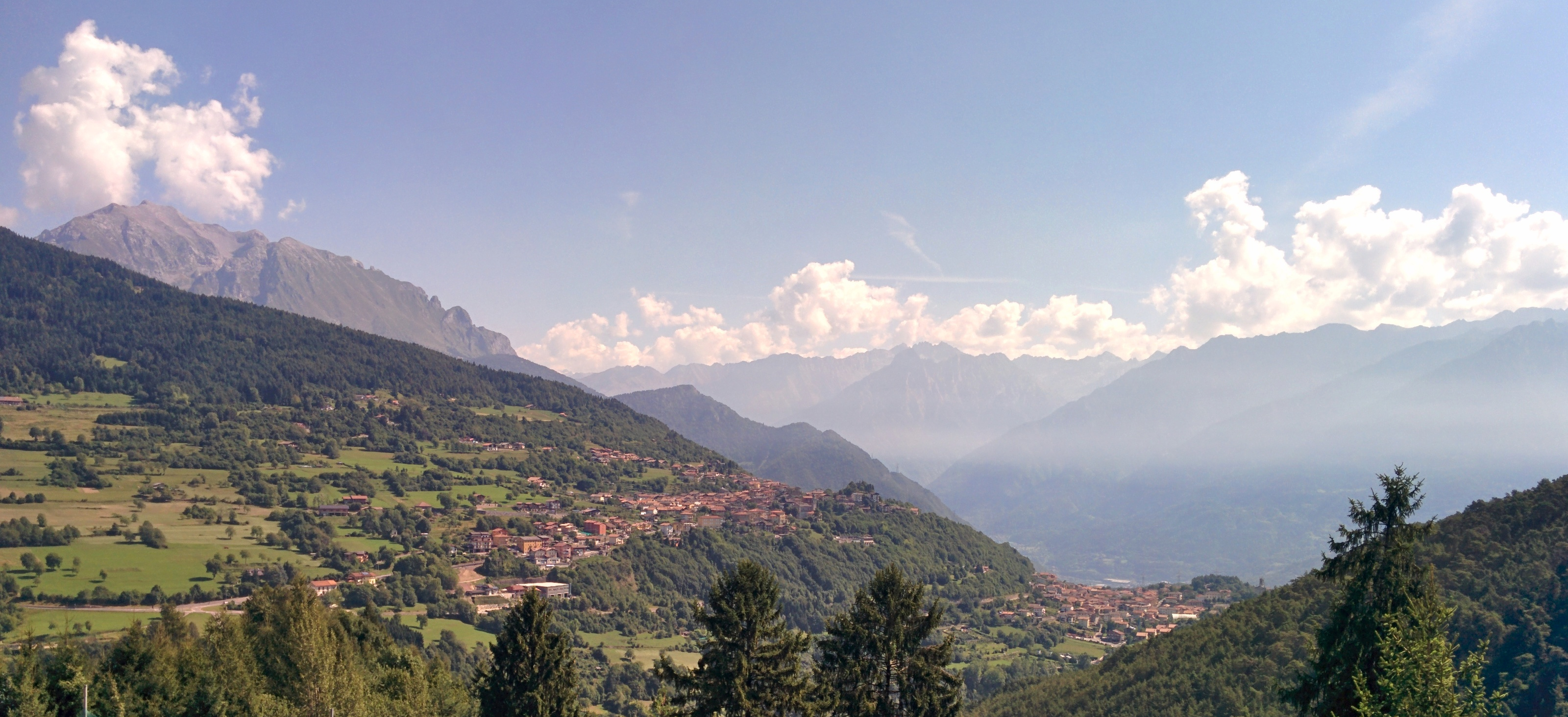 Panorama of the two main hamlets of Ossimo: Ossimo Superiore and Ossimo Inferiore